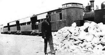 Train (of the Fayoum Light Railway) to Tamia (a.k.a. Tamieh)